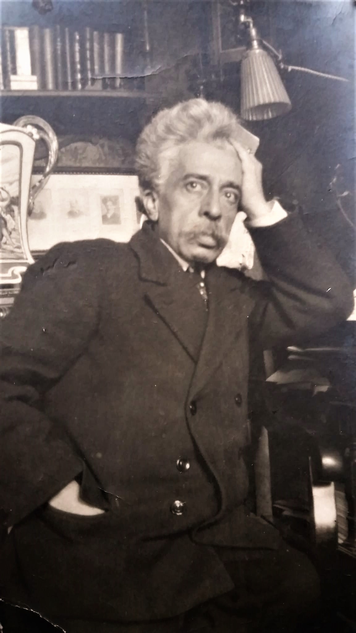 Edgardo Del Valle de Paz (1861-1920)